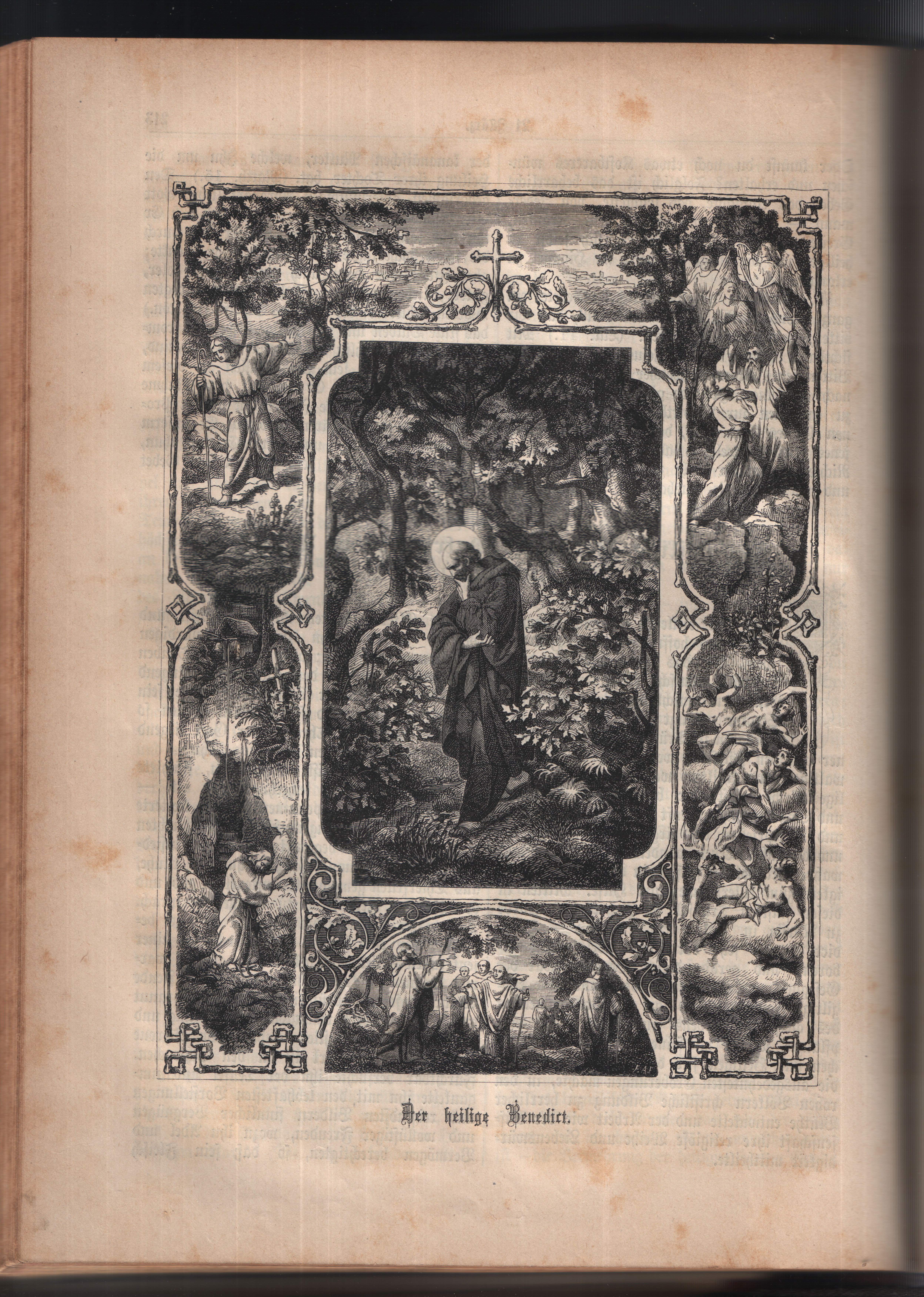 On this picture is Saint Benedict alone and scenes of his life